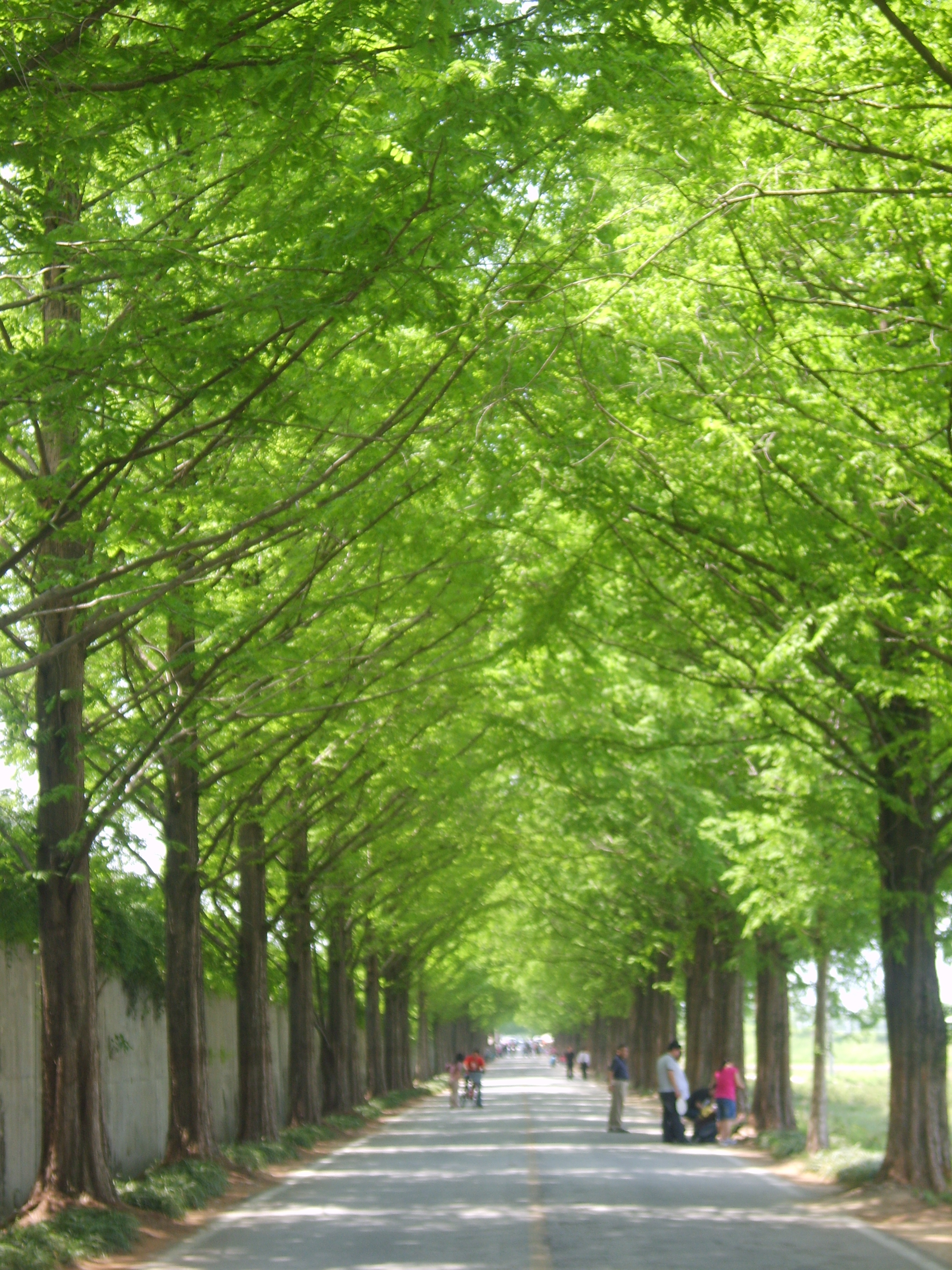 Metasequoia glyptostroboides Avenue in Damyang Korea. 담양 메타세콰이아 길